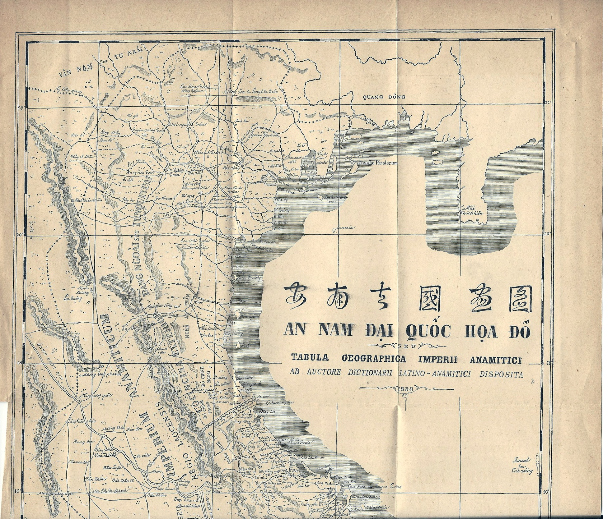 Map of the Empire of Annam (1838) drawn by Mgr. Taberd